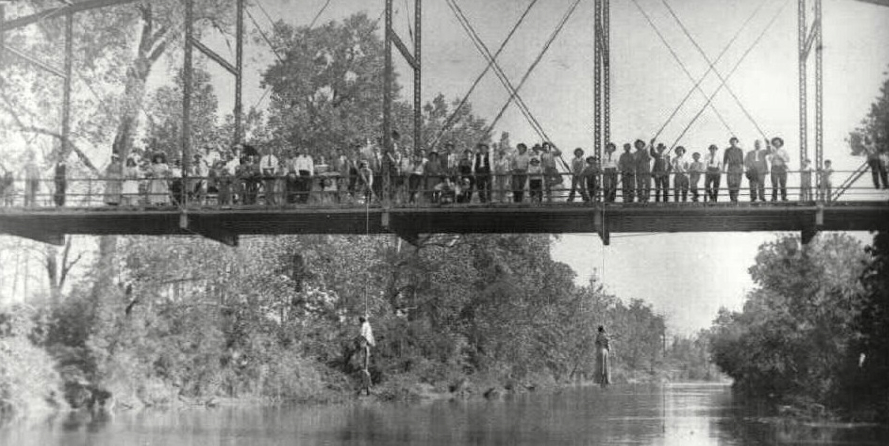 The lynching of Laura and Lawrence Nelson on 25 May 1911 in Okemah, Oklahoma.